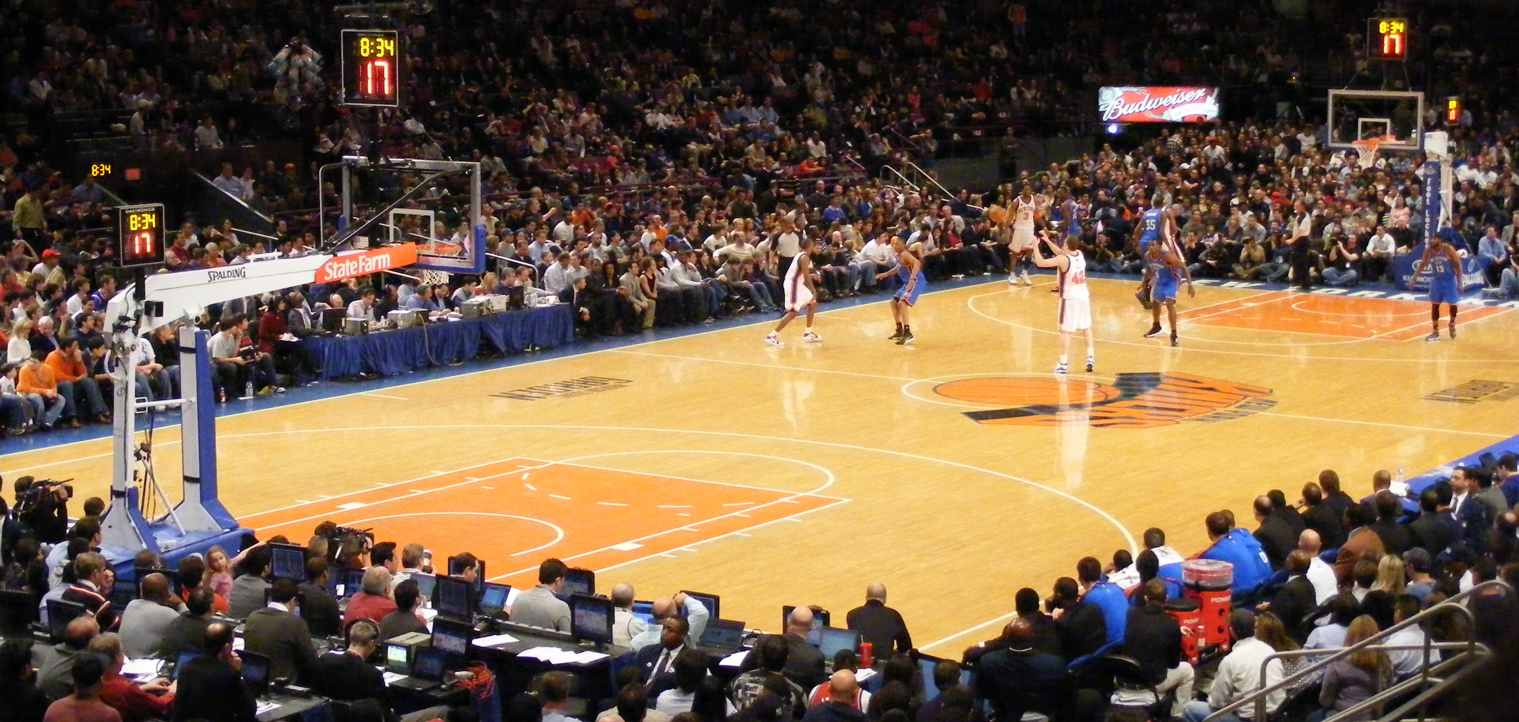 New York Knicks vs Oklahoma City Thunder